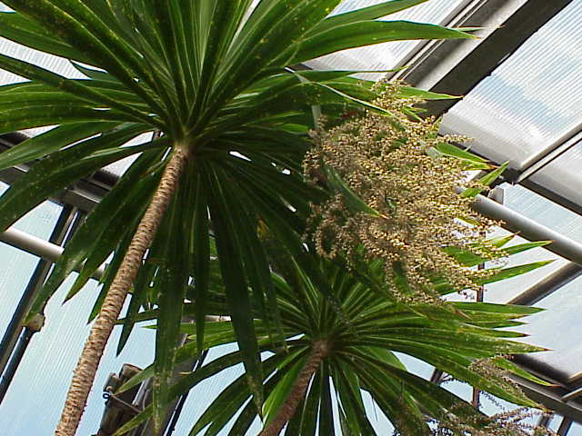 Species: Cordyline stricta Family: Asteliaceae Image No. 2